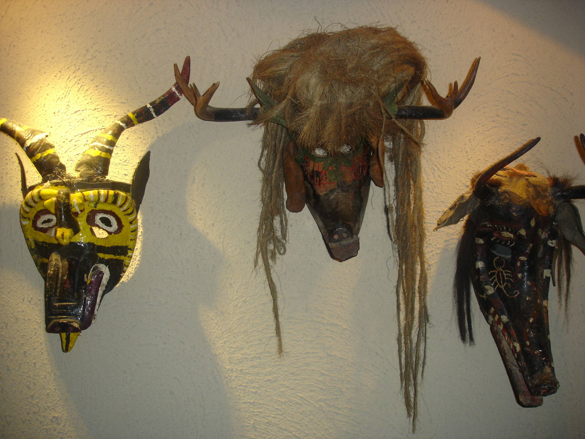 Tecuexe Masks from a museum in Zacatecas, Mexico near la Quemada. Photograph by: Veronica Cuellar-Hernandez (October 25, 2007)